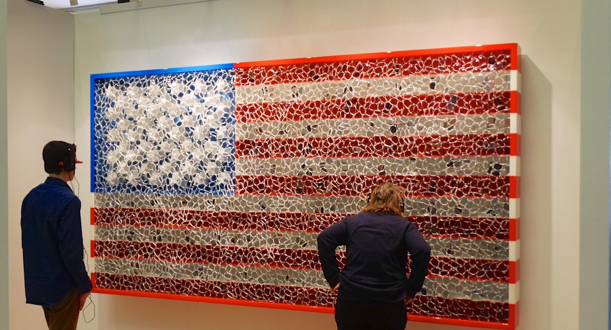 Portrait of America, from David Datuna’s “Viewpoint of Billions” series, is a 12-foot multimedia American flag covered in hundreds of eyeglass lenses.